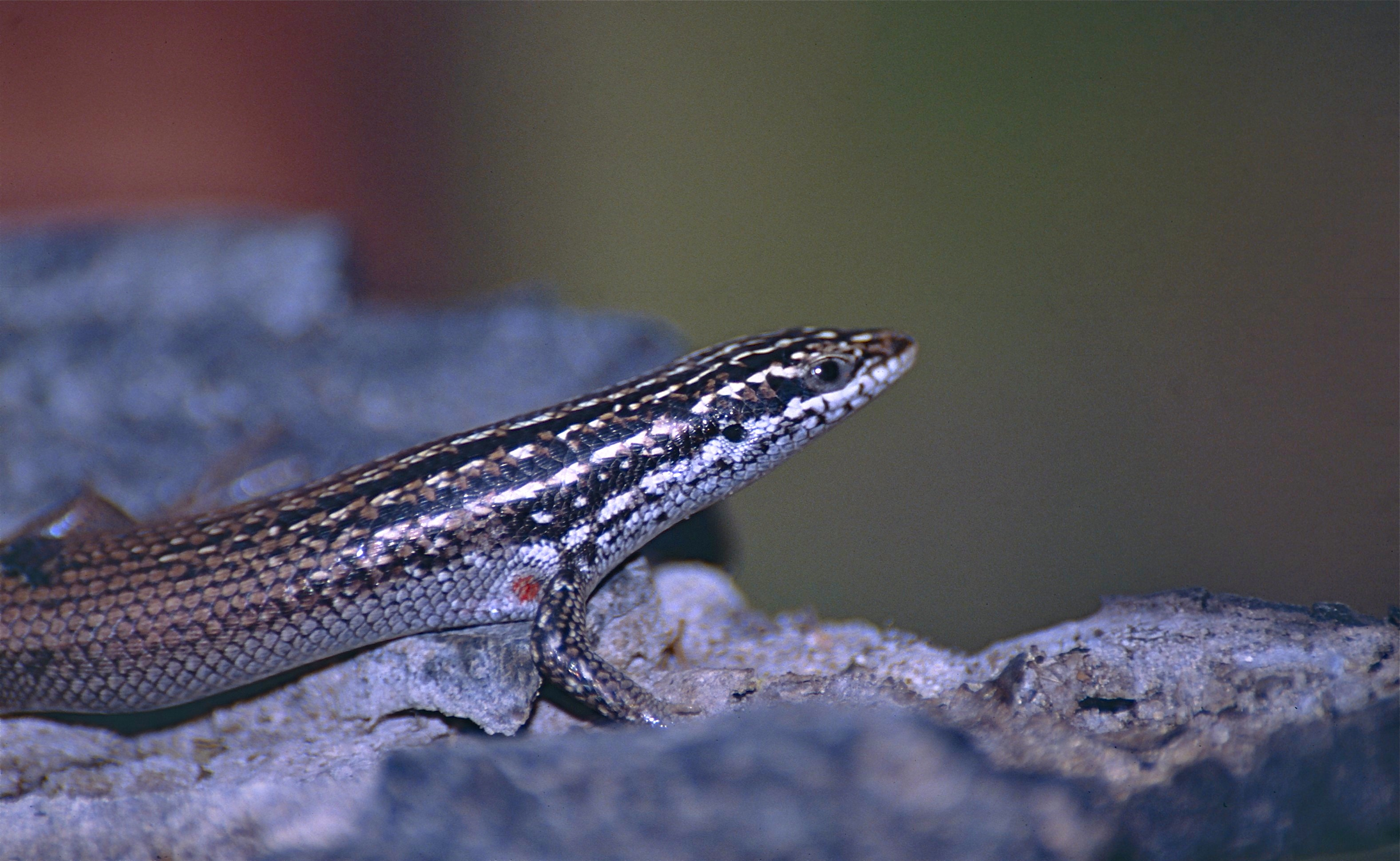 Isalo NP, MADAGASCAR Scanned Slide from 1998